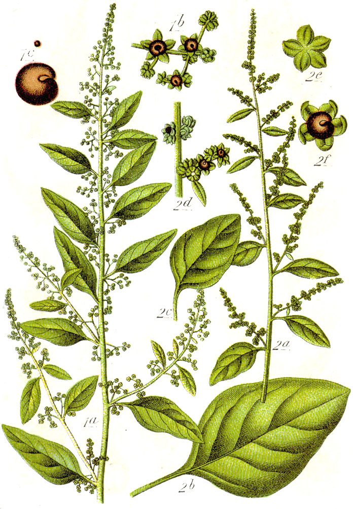 Chenopodium polyspermum L. Original Caption Vielsamige Melde, Chenopodium polyspermum